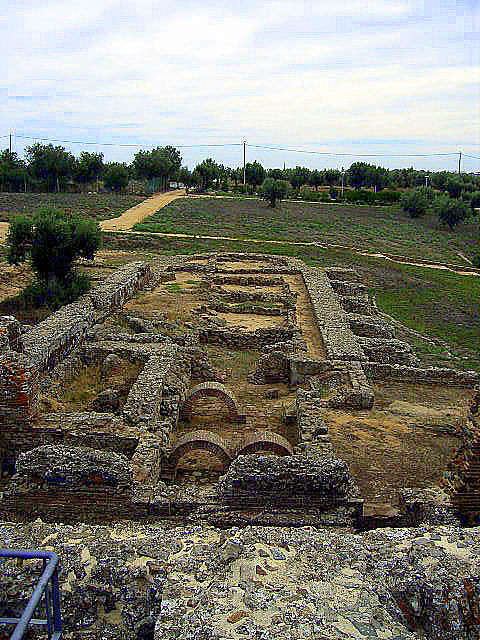 The Roman Ruins of Villa Áulica and Convent of São Cucufate - Roman thermae with hypocaust - Vidigueira/Portugal